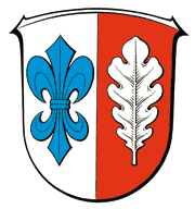 Coat of Arms of Eichenzell